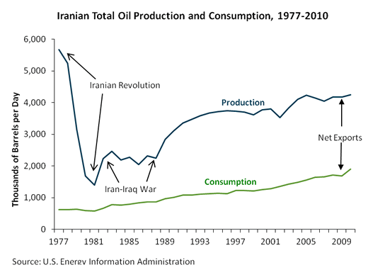 Iranian Total Oil Production and Consumption, 1997-2010.